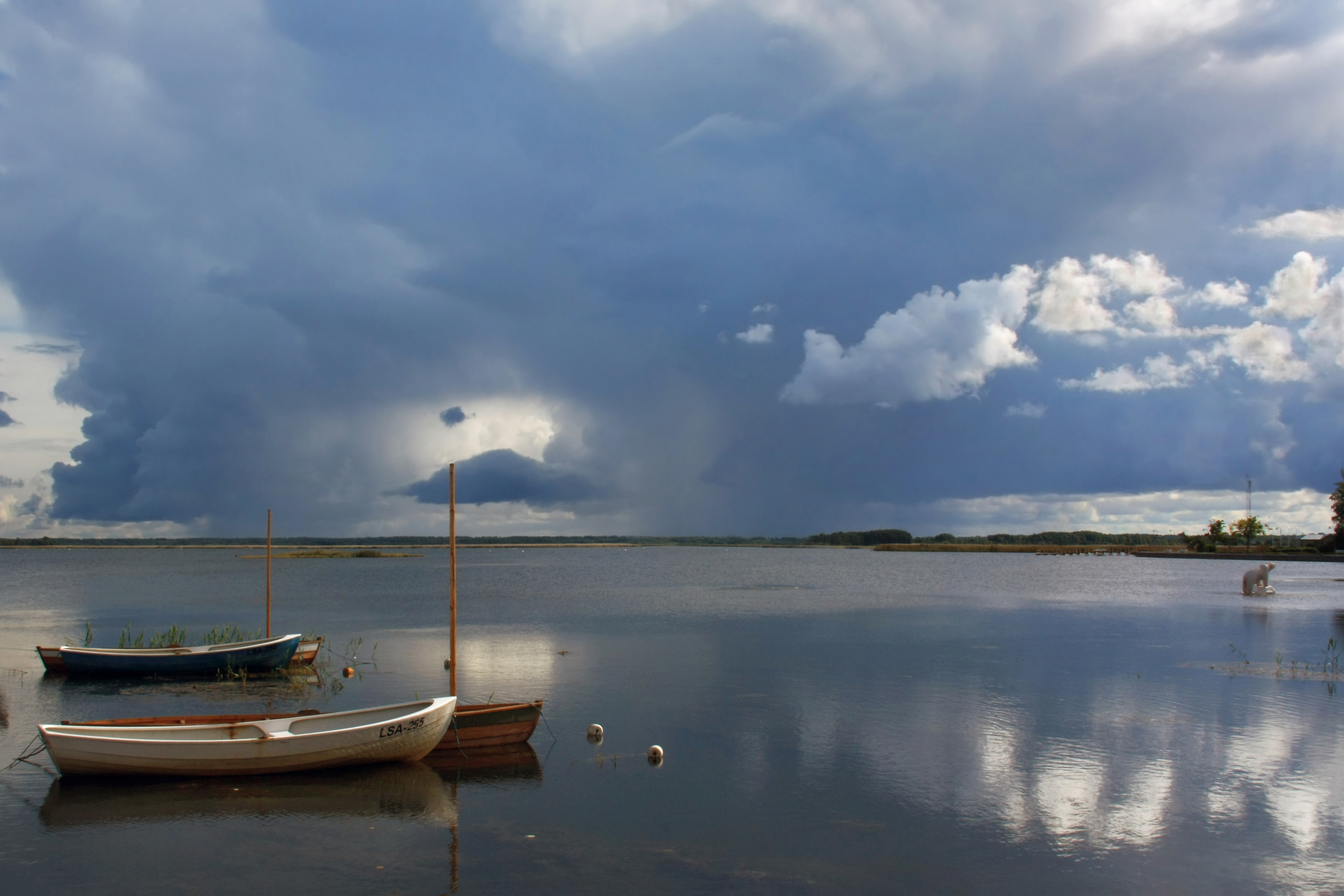 Boats in Tagalaht. Haapsalu, Estonia